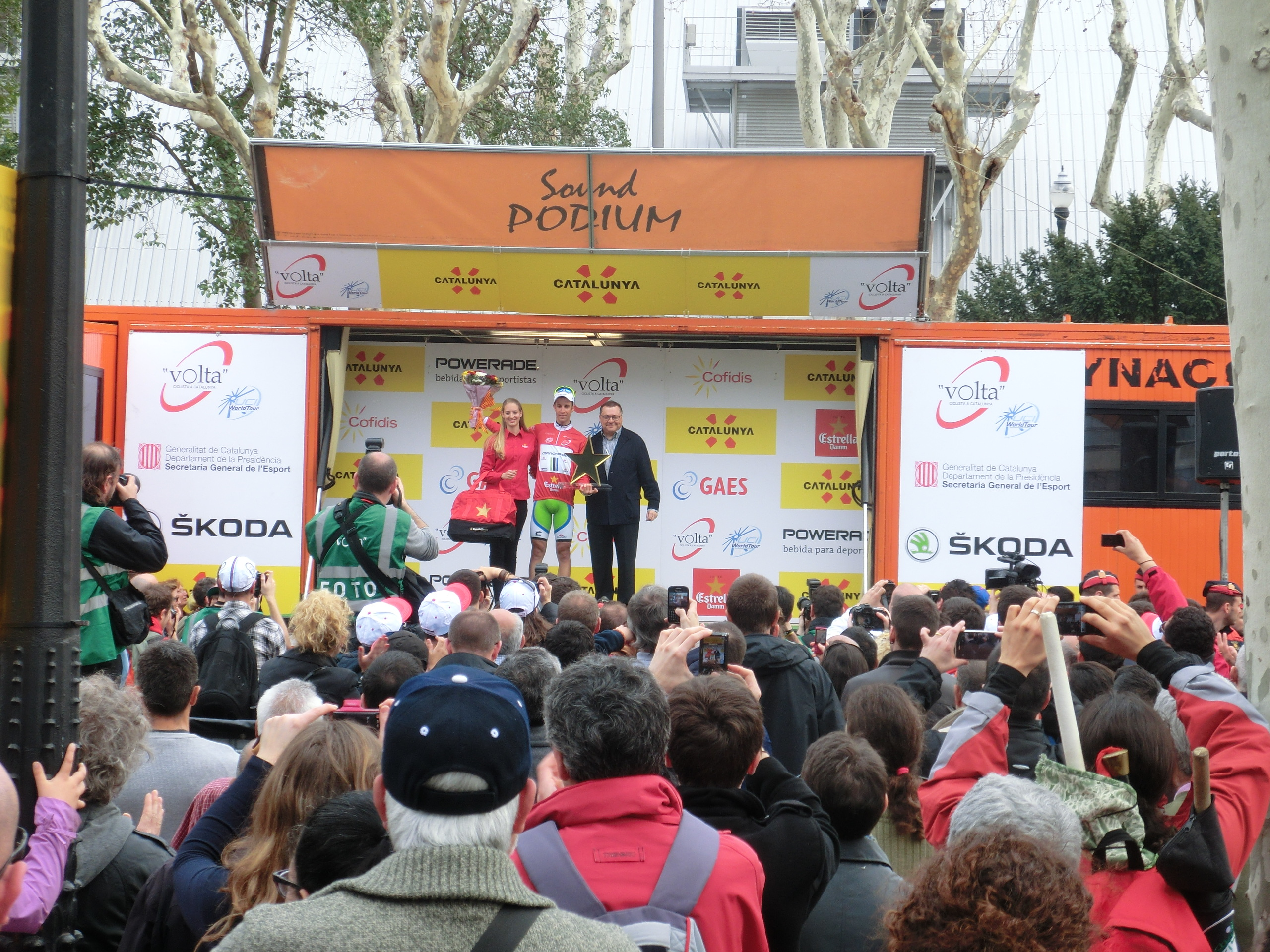 Cristiano Salerno in the podium as the winner of the mountain classification in the 2013 Volta Catalunya.